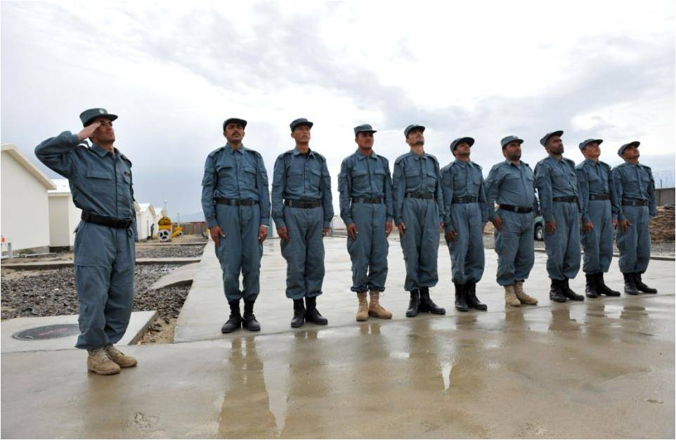 The following is the author's description of the photograph quoted directly from the photograph's Flickr page."An Afghan National Police (ANP) officer salutes, as the Afghanistan flag raises at the Training Sustainment Site at Forward Operating Base Ghazni May 5, 2010.(Photo by US Air Force Tech Sgt. JT May III)(100505-F-4473M-042) "